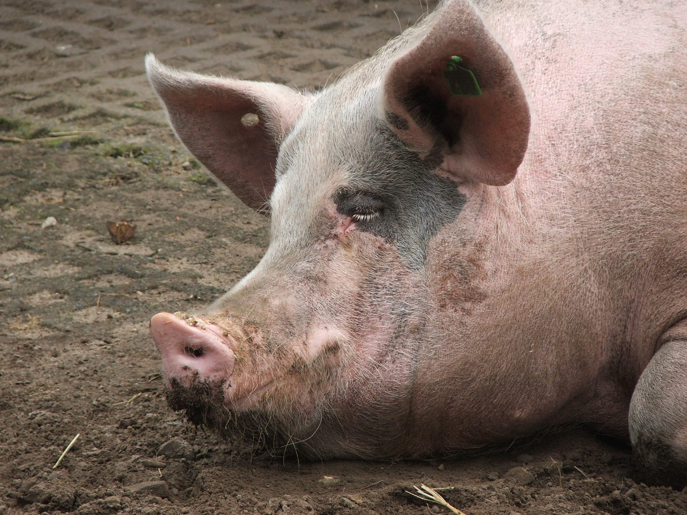 Sus scrofa domestica, Zoo in Ueckermünde, Germany